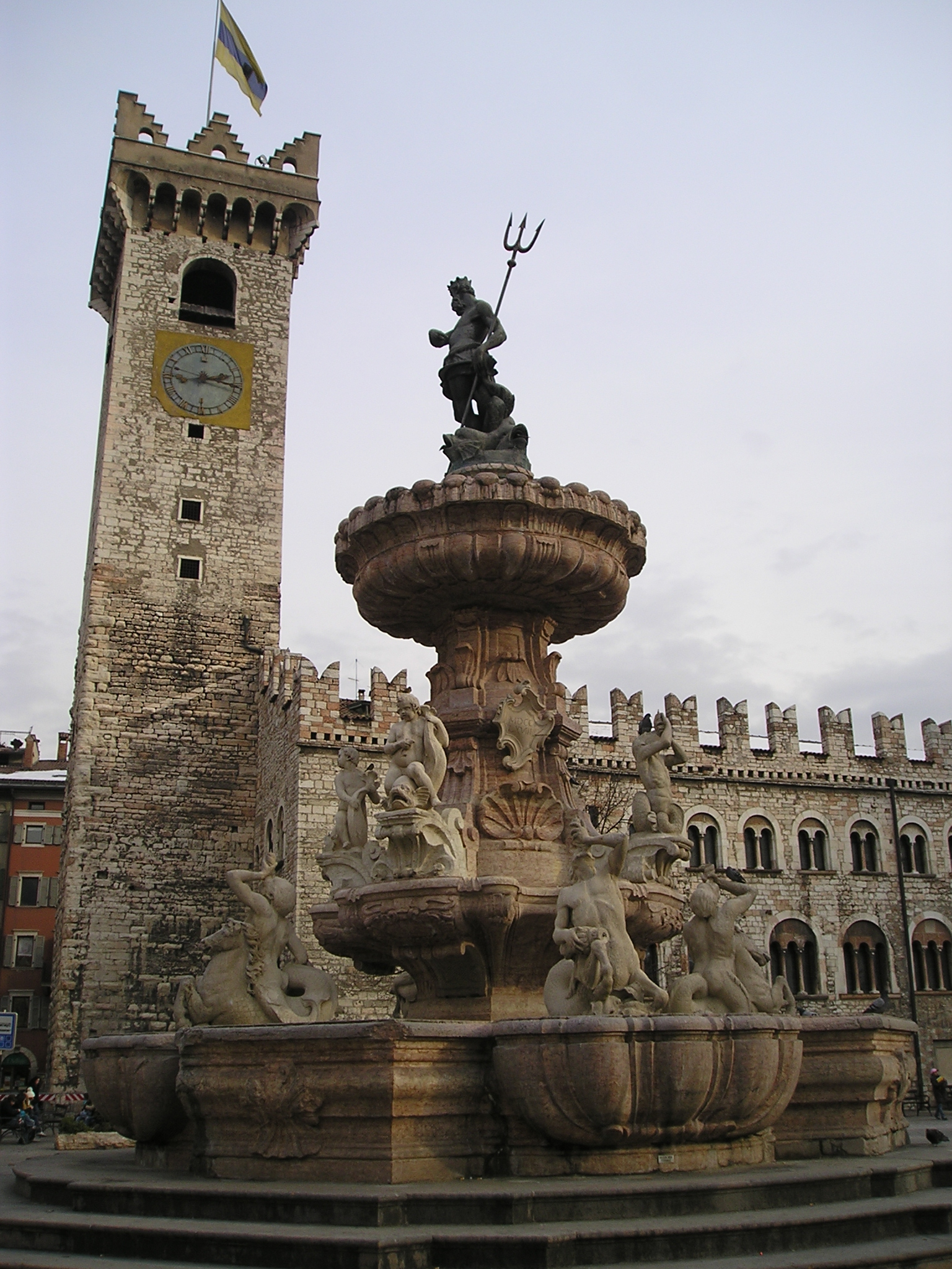 View of Torre Civica (Civic Tower) and the fountain of Neptune in Piazza del Duomo, Trento